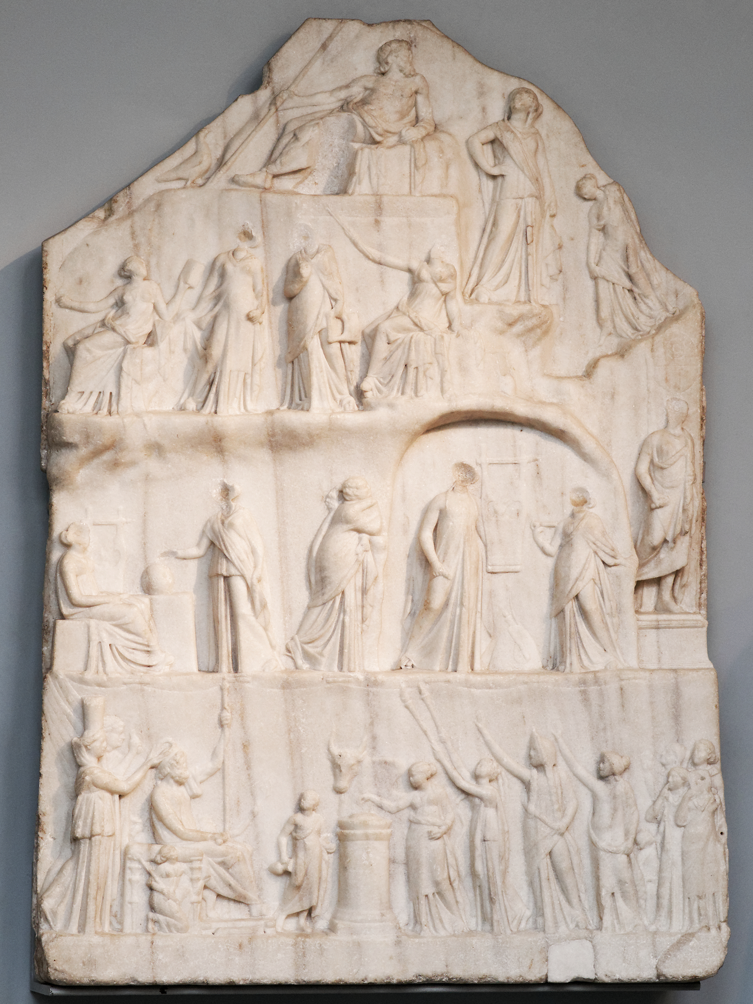 tier: Homer seated on a throne; behind him, Oikoumene (Arsinoe III?) and Cronos (Ptolemy IV?); crouching beside the throne, the Iliad and the Odyssey; on the left of the altar, the Myth (as a child); on the right of the altar, from left to right, History, Poetry, Tragedy and Comedy, then Nature (Physis), Virtue (Arete), Memory (Mneme), Good Faith (Pistis), Wisdom (Sophia). Upper tier: Zeus; middle tiers: Muses. Probably made in Alexandria, Ptolemaic Egypt.